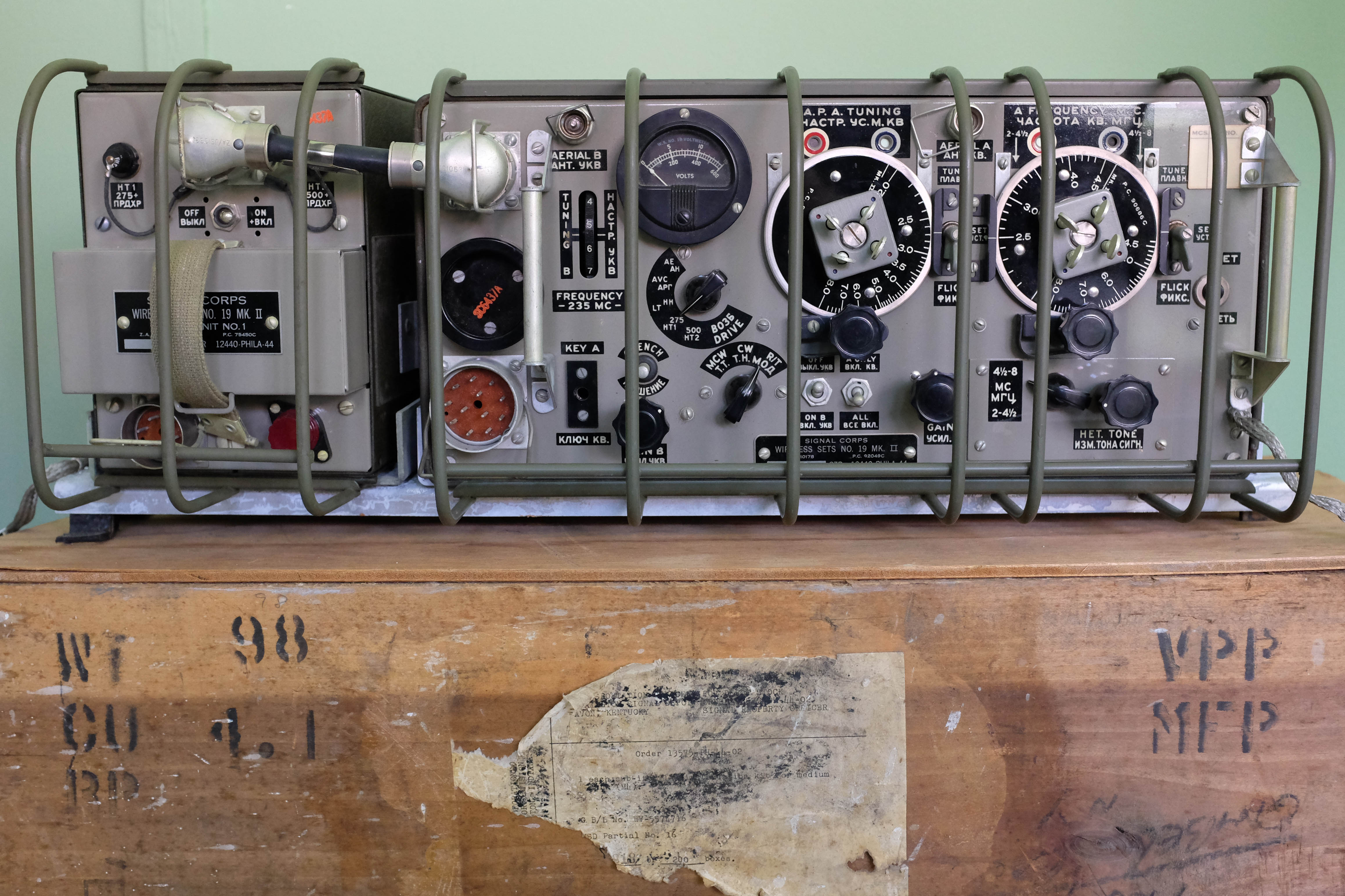 Wireless Set No. 19 at InfoAge museum at Camp Evans Historic District in Wall, NJ. Number plaque reads: CZR 12440-PHILA-44.